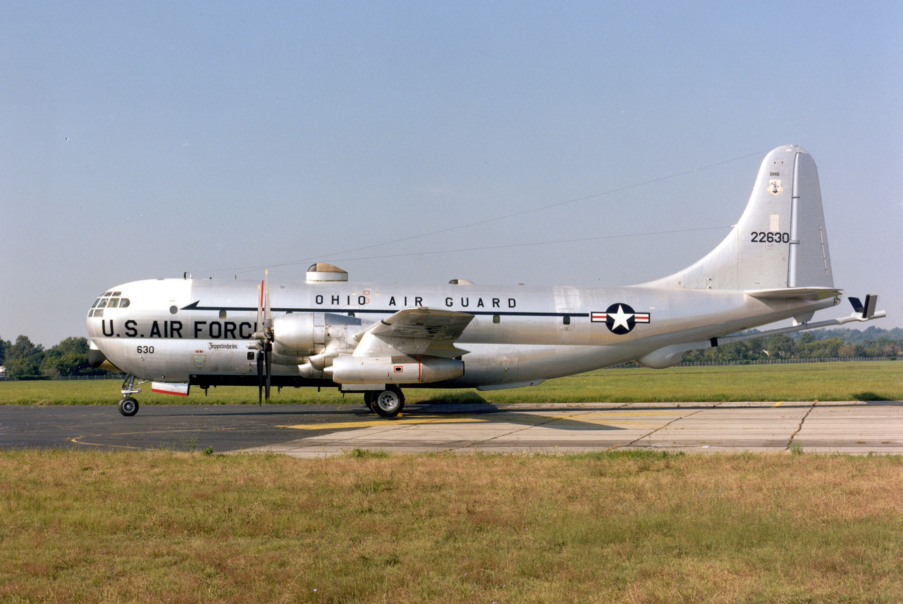 A Boeing KC-97L Stratofreighter (s/n 52-2630) at the National Museum of the United States Air Force. The USAF retired its last C/KC-97 in 1973, but others remained in use with the Air Force Reserve and Air National Guard as tankers or search and rescue aircraft. During "Operation Creek Party", which started in 1967 and lasted for 10 years, U.S. Air National Guard and U.S. Air Force Reserve tankers supported active duty USAF and NATO units in Europe. The aircraft on display, flown by the 160th Air Refueling Group of the Ohio Air National Guard, participated in this operation, and on 7 June 1973, the mayor of Zeppelinheim, a town near Rhein-Main Air Base in West Germany (today part of Frankfurt International Airport), christened this aircraft in his town's honour. In 1977 Zeppelinheim became part of the city of Neu-Isenburg. The KC-97L Zeppelinheim was flown to the USAF museum in August 1976.